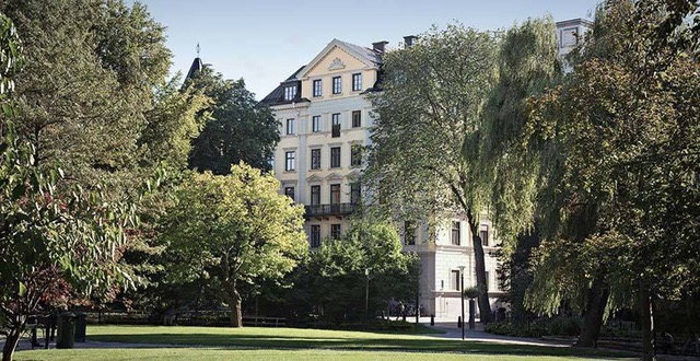 Bukowskis huvudkontor vid Berzelii Park 1, Stockholm